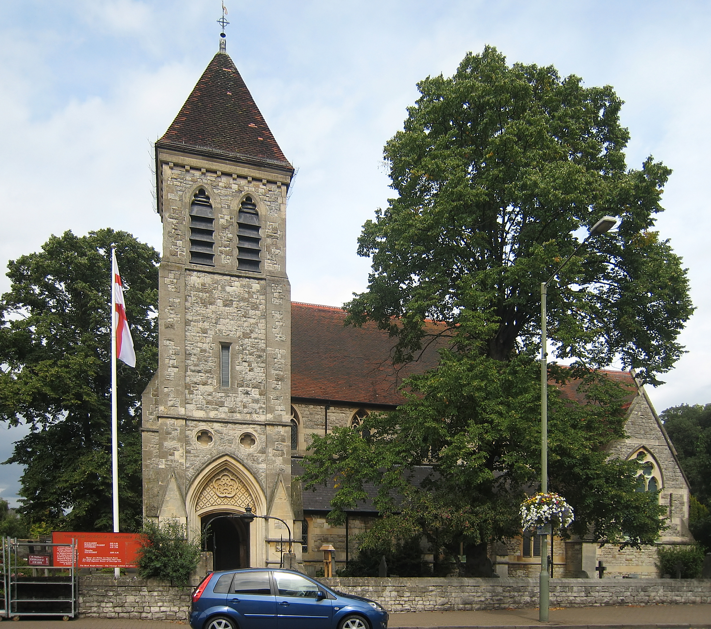 St Matthew's parish church, Church Road, Ashford, Surrey, England, seen from the southwest